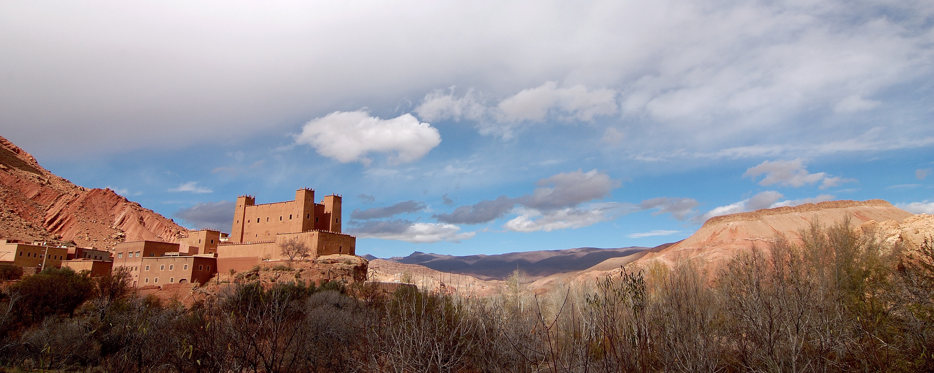 Dadès Valley, Morocco